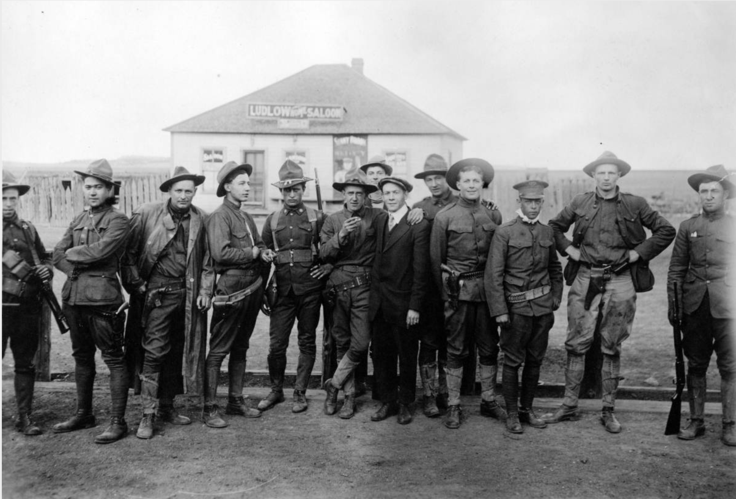 Members of the Colorado National Guard, called in to suppress the UMWA strike against CF&I, pose outdoors with a civilian near the Ludlow Home Saloon in Ludlow, Las Animas County, Colorado. They wear ammunition belts with holsters.